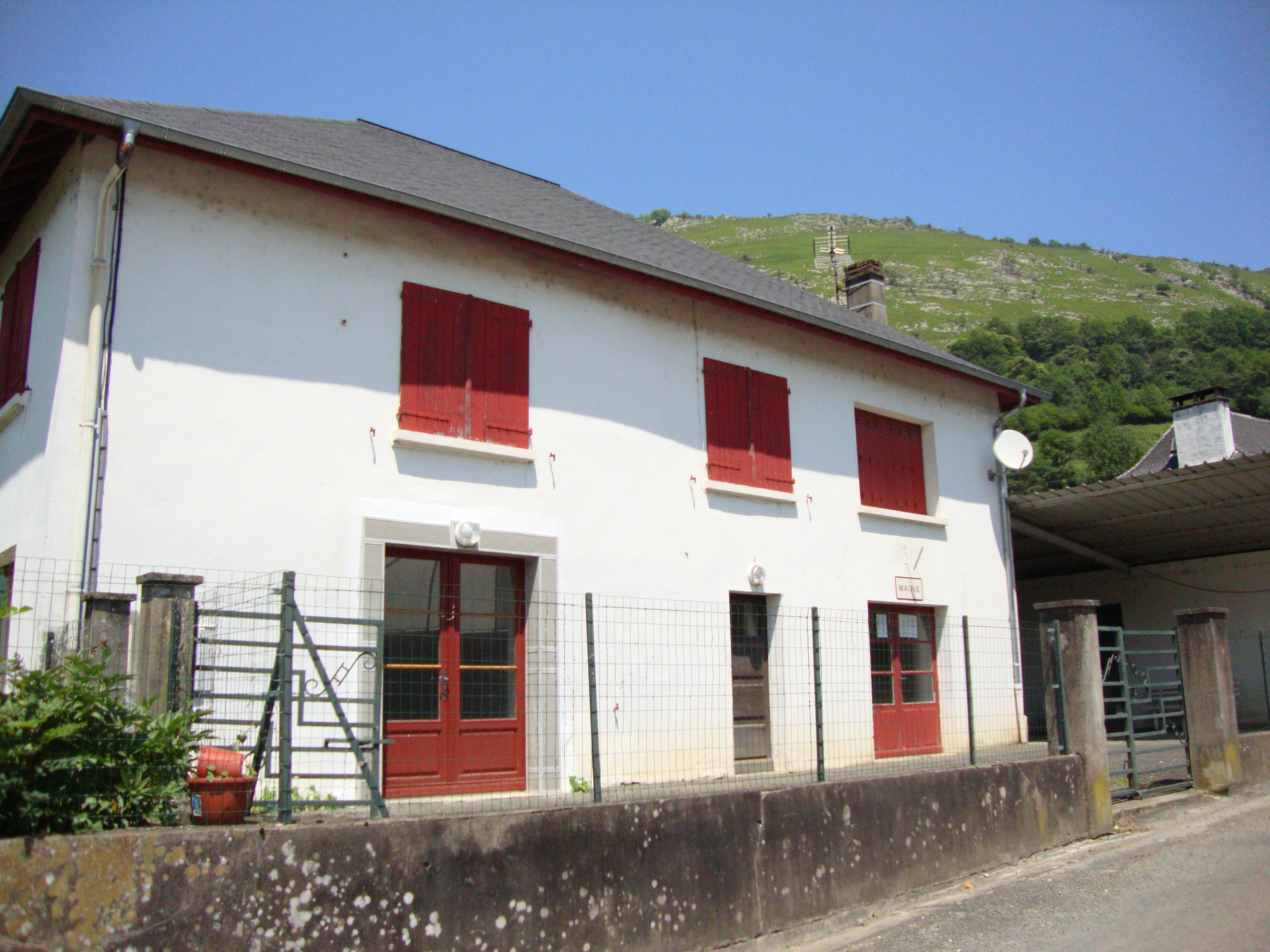 Haux (Pyr-Atl, Fr) la mairie.